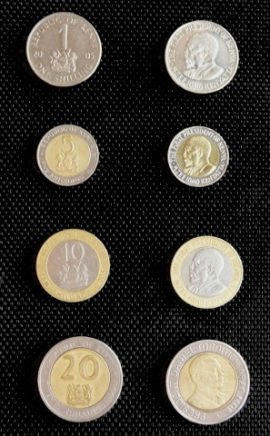 1, 5, 10, 20 kenyan shillings